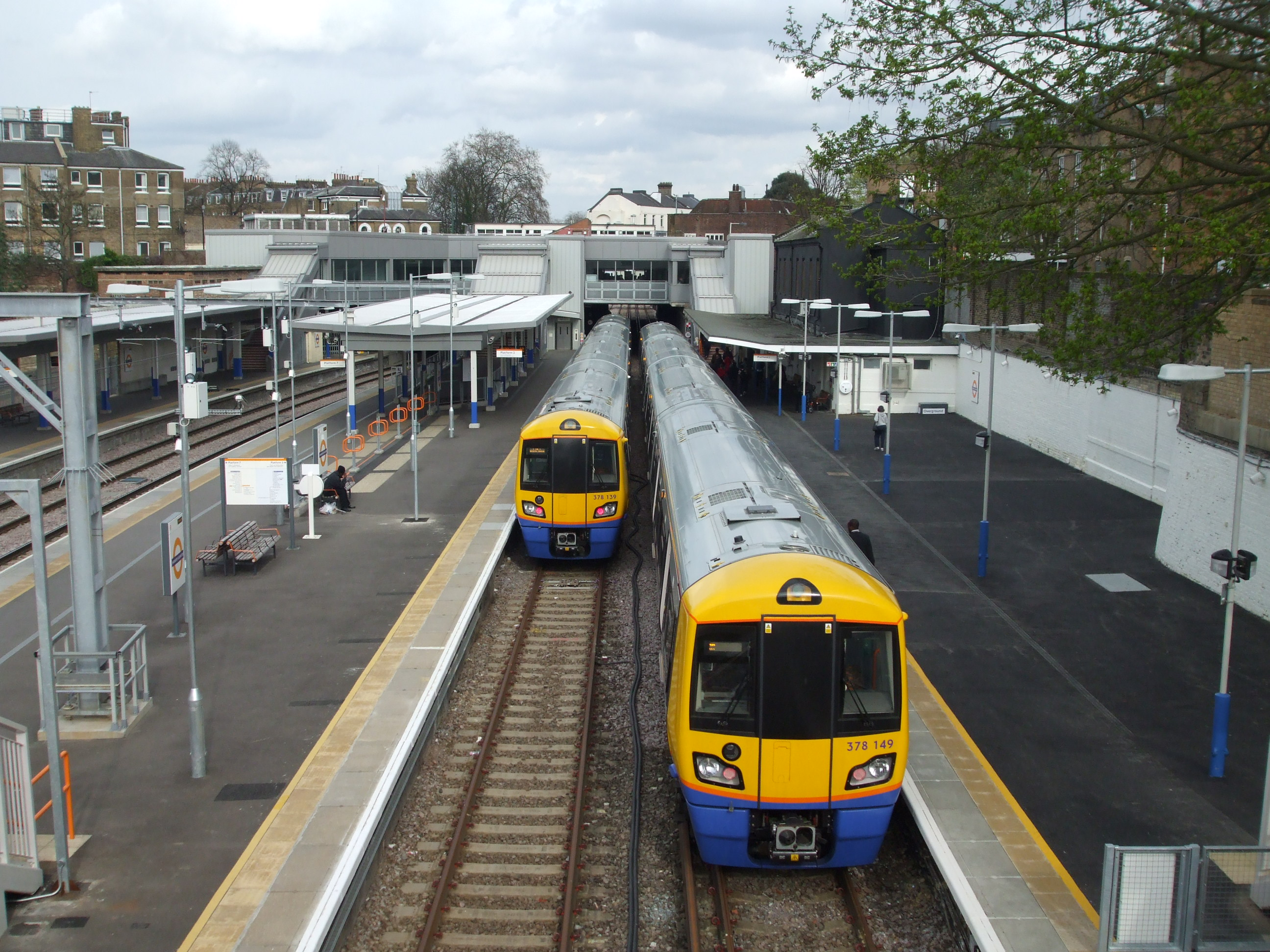 Highbury & Islington station East London Line platforms looking east from footbridge. These platforms, while originally for the North London Line, were closed in 2010 and re-opened in March 2011 for East London Line services via Dalston Junction. The platforms on the left are now the North London Line platforms, having previously been freight-only tracks. Units 378139 and 378149 can be seen.